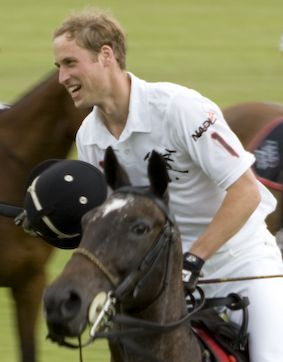 Prince William at a Polo match in Sandhurst, July 2007